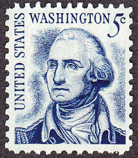 Washington postage stamp, 1966